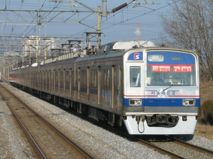 Seoul Metro EMU 4965.